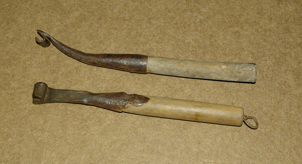 A tool used for lifting pans and pots